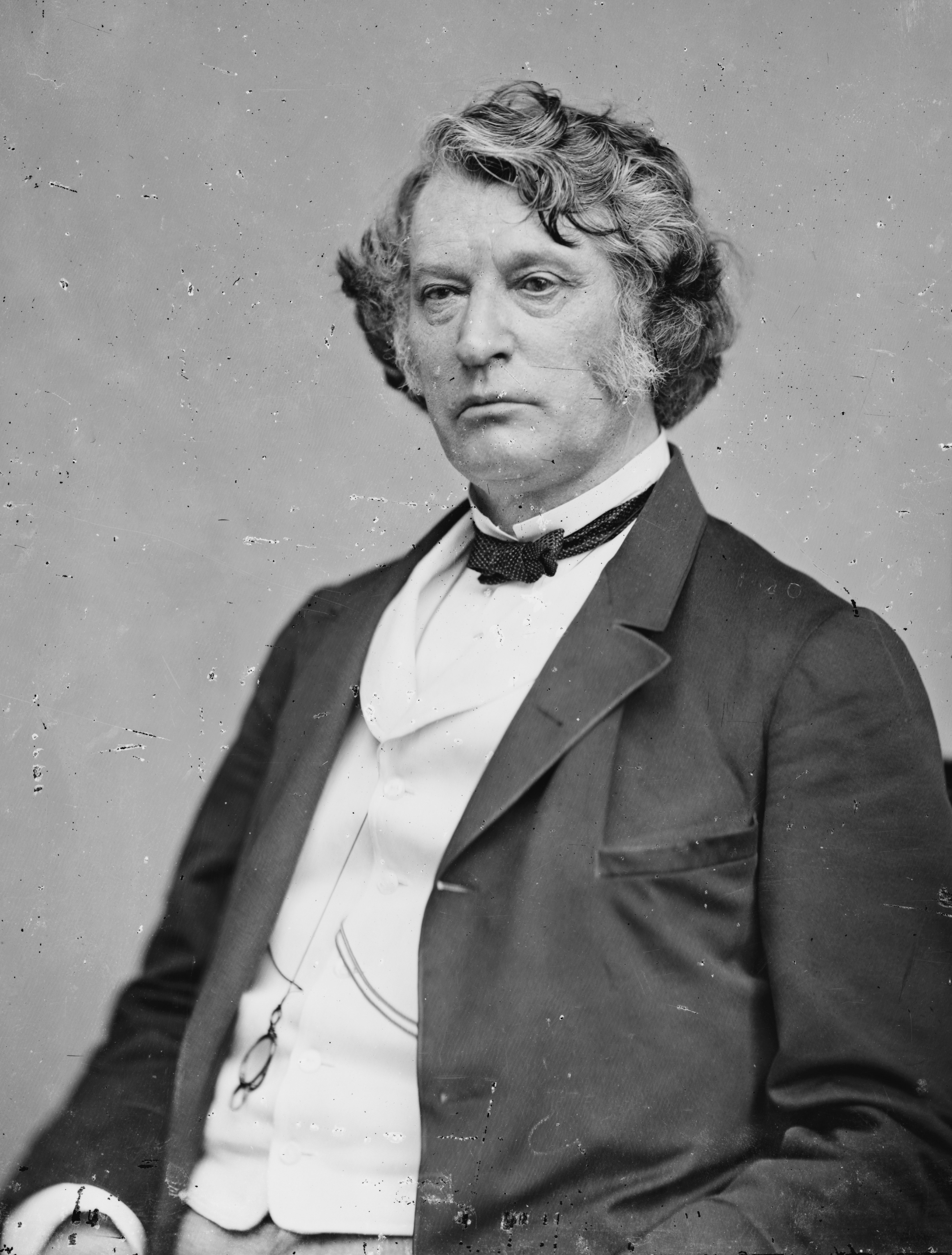 Massachusetts politician Charles Sumner. This is an edited version of the orginal photo.